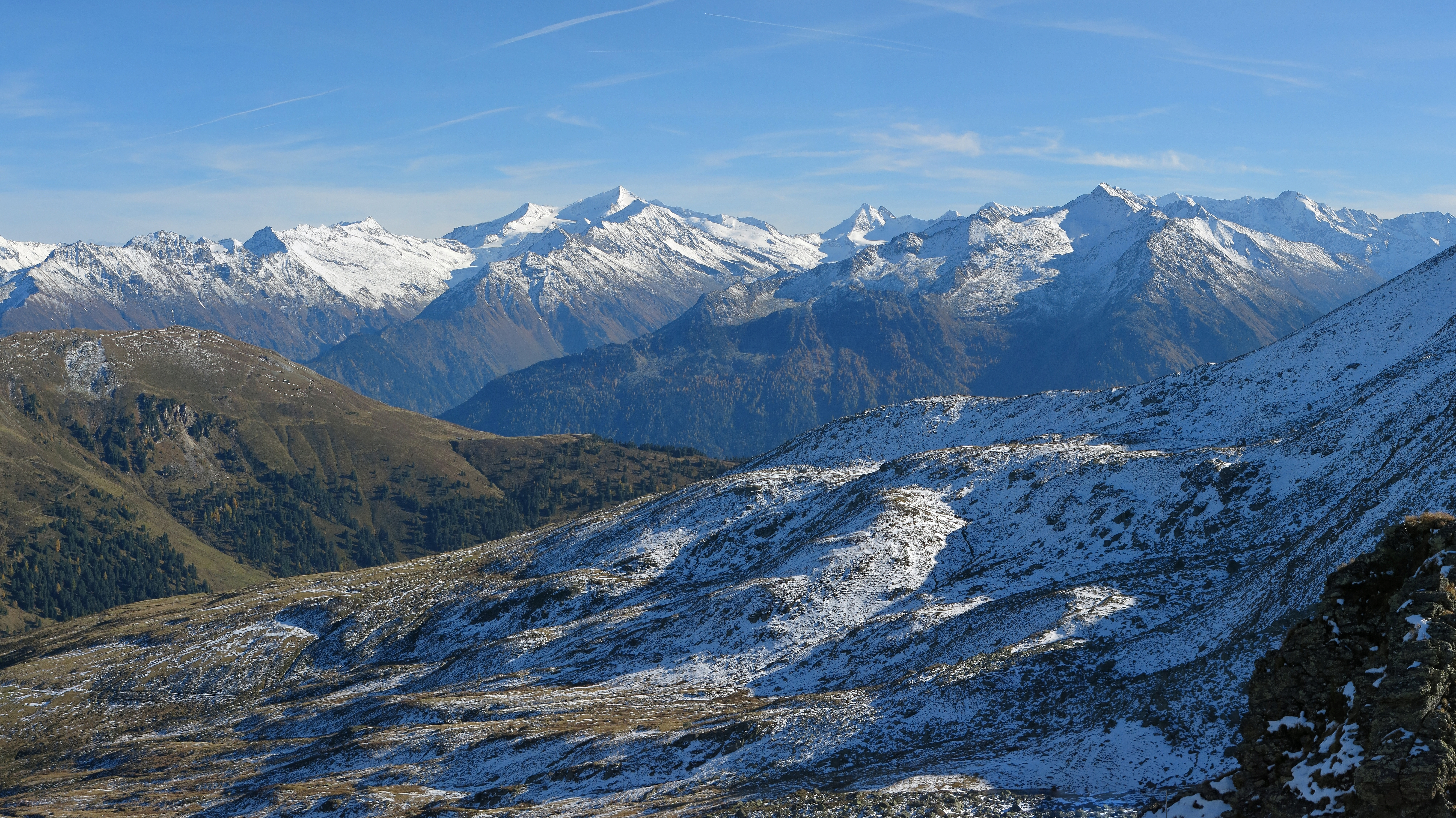 Venediger group in the High Tauern, taken from the Tristkopf in the Kitzbühel Alps